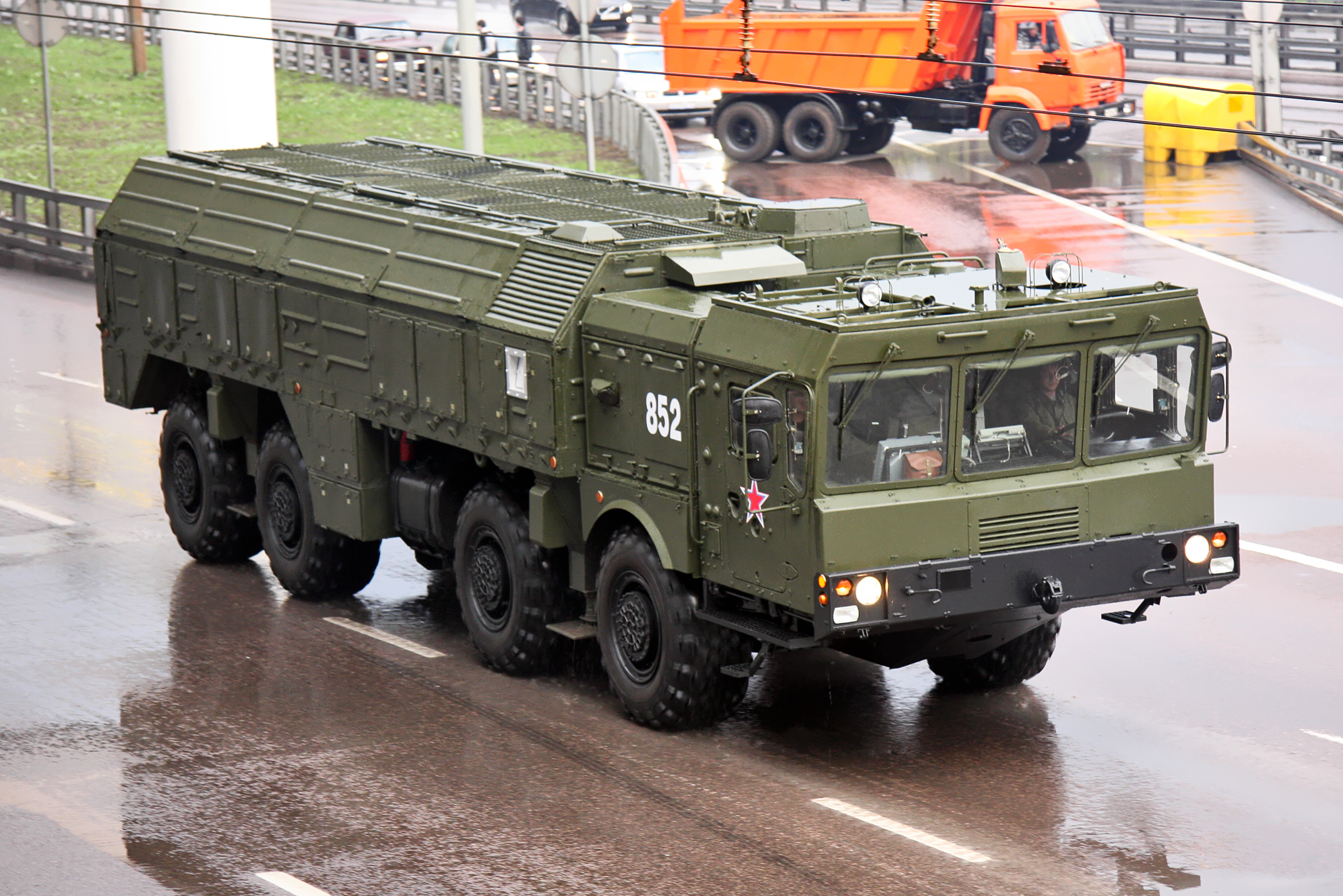 9P78-1 self-propelled launching vehicle for Iskander-M system